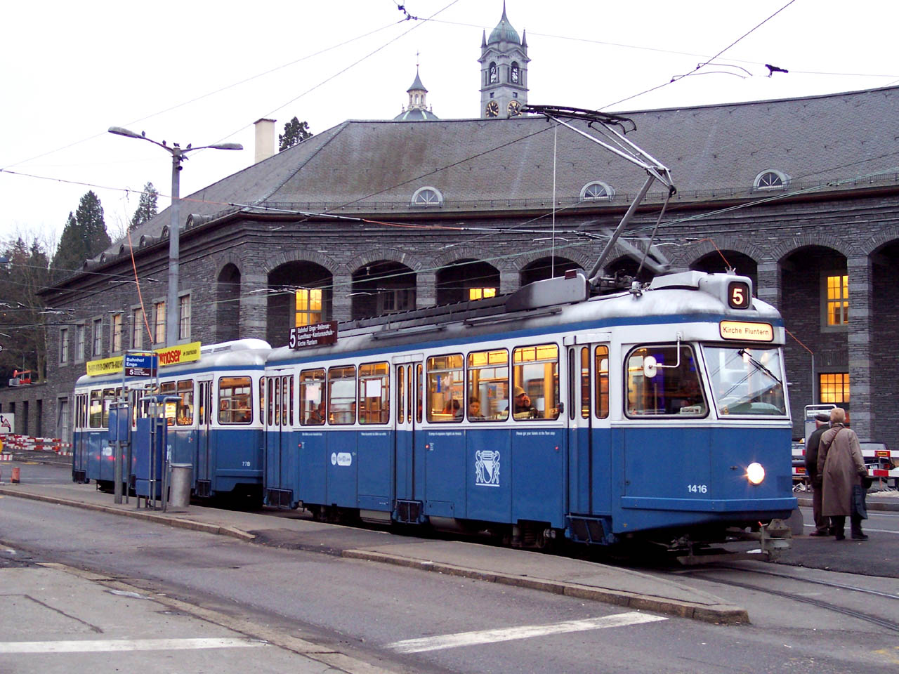 Trams in Zürich: A Be 4/4 Karpfen plus matching trailer waits at Bahnhof Enge for departure to Kirche Fluntern on route 5. These trams have since been withdrawn from service in Zürich.